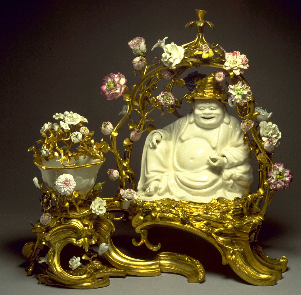 The "marchands-merciers," or purveyors of the arts, frequently determined the course of fashion in 18th-century France. In this instance, a "marchand-mercier" has had a Chinese porcelain figure of the Buddhist monk Pu-tai Ho Shang and a cup mounted in an ormolu bower adorned with Vincennes porcelain flowers. The ormolu is stamped with the crowned "C" mark indicating that it was made between 1745 and 1749.